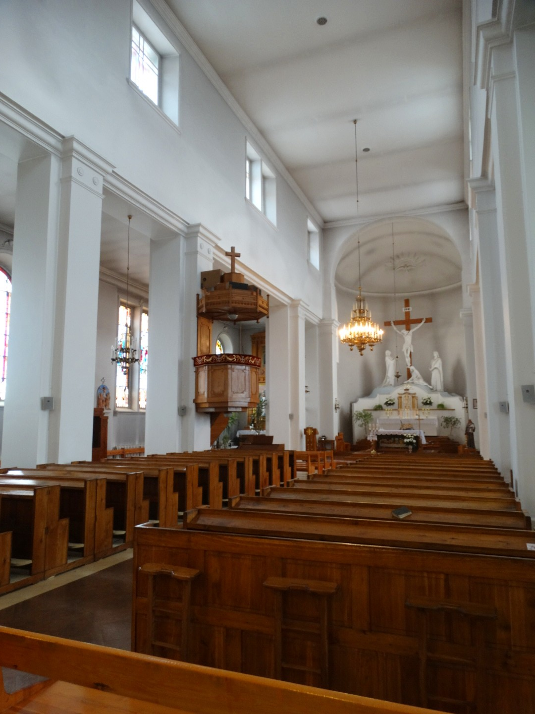 Catholic church, Švenčionėliai, Lithuania